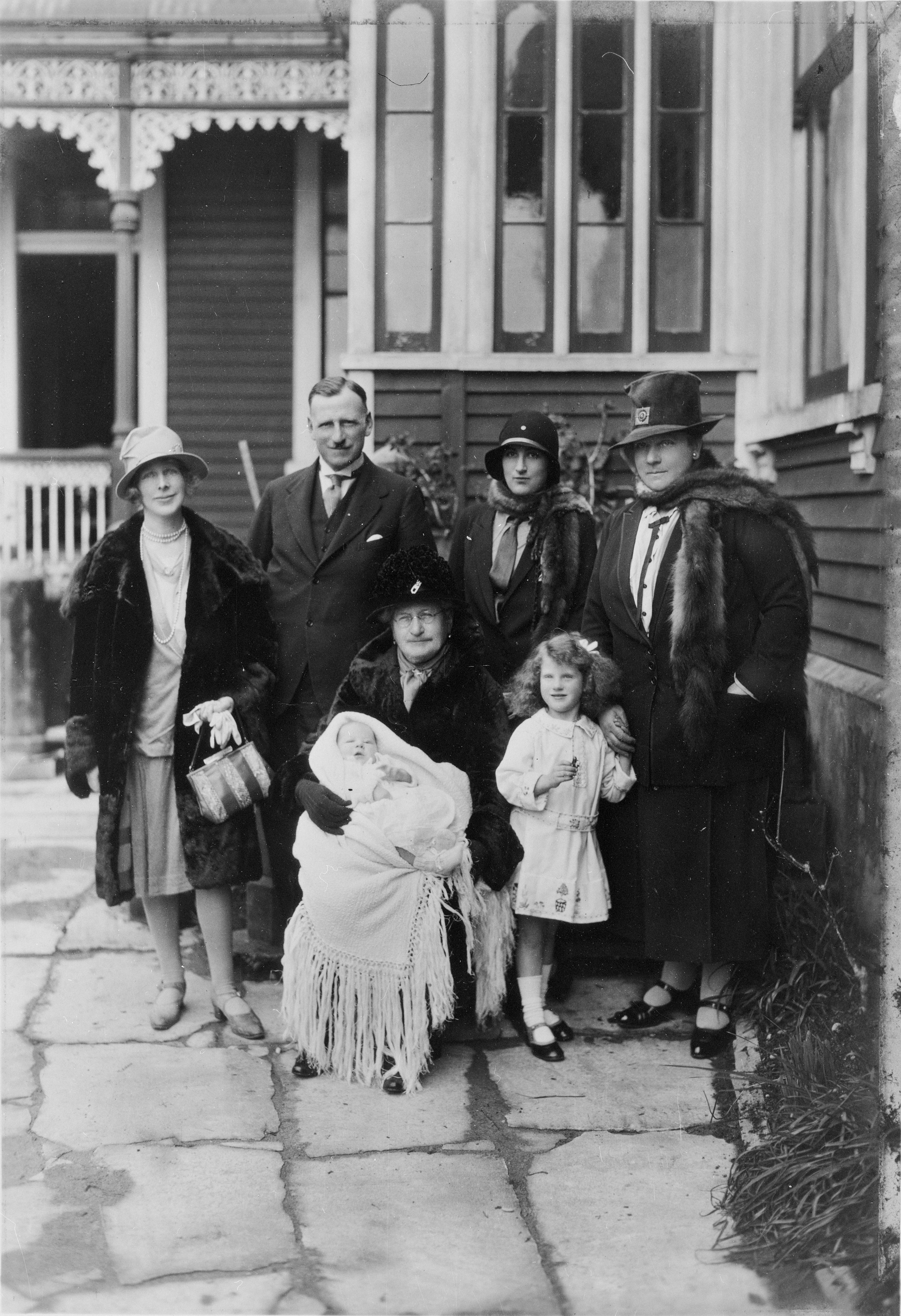 Thomas Edward Youd Seddon with members of his family. Back row, standing: Beatrice Anna Seddon (1889-1987); Thomas Edward Youd Seddon(1884-1972); Marjorie Morice (daughter of Louisa Jane (nee Seddon) and Dr Charles Morice); Elizabeth May Seddon (later Dame Elizabeth Gilmer) (1880-1960).Seated is Seddon's mother (1851-1931) holding his elder son (1928-2012), his only sister (1924-2000) beside them